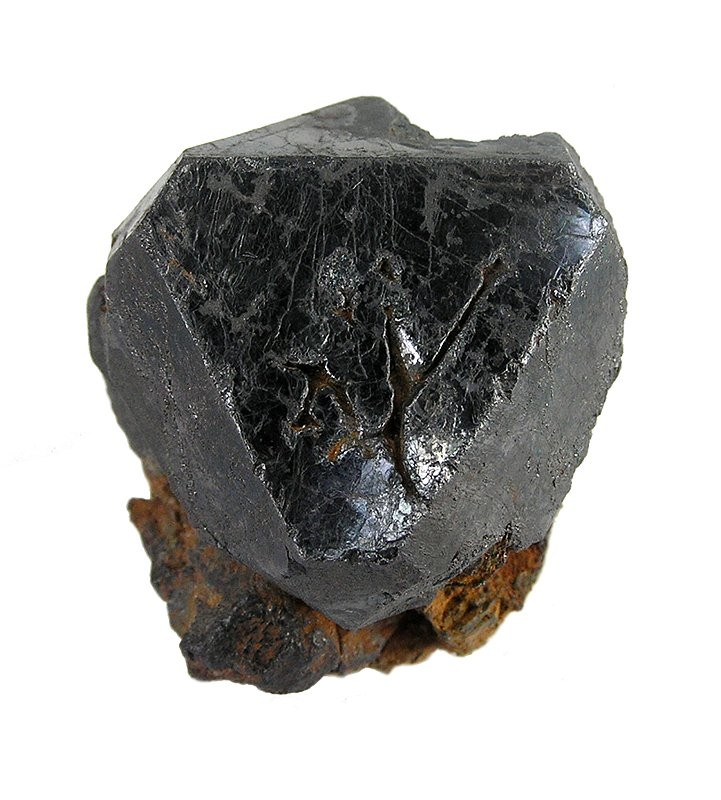 Ilmenite Locality: Froland, Aust-Agder, Norway (Locality at ) This is a much finer specimen of ilmenite than the previous specimen because it features a more 3-dimensional crystal yet, on a bit of matrix. It has an equant, pseudo-octahedral, extremely lustrous black crystal, to 3 cm across a single face. Its trigonal crystallography is clearly evident. This is certainly one of the finest around for the locality, on the market, I would expect. In person, it is quite beautiful despite being relegated to the "black uglies" category by most folks. 4.1 x 4.1 x 3.8 cm